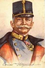 Portrait of Field Marshal Franz Graf Conrad von Hötzendorf, chief of staff of Austria-Hungary until 1917.